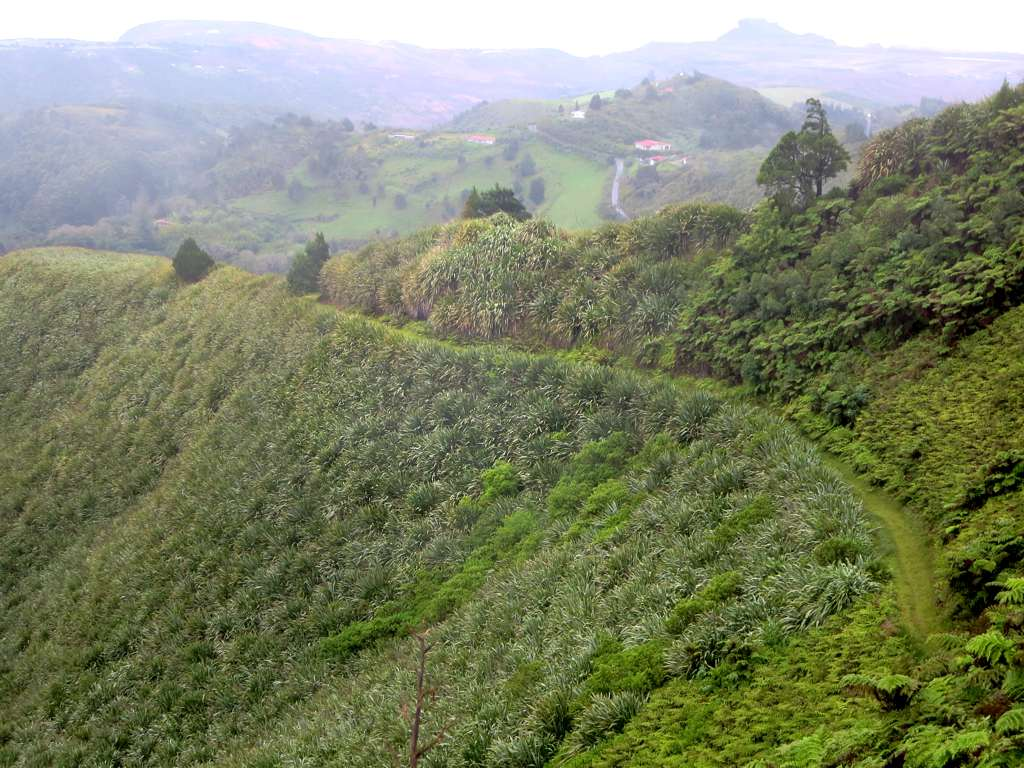 The trail to Diana's Peak (highest point on St Helena Island)